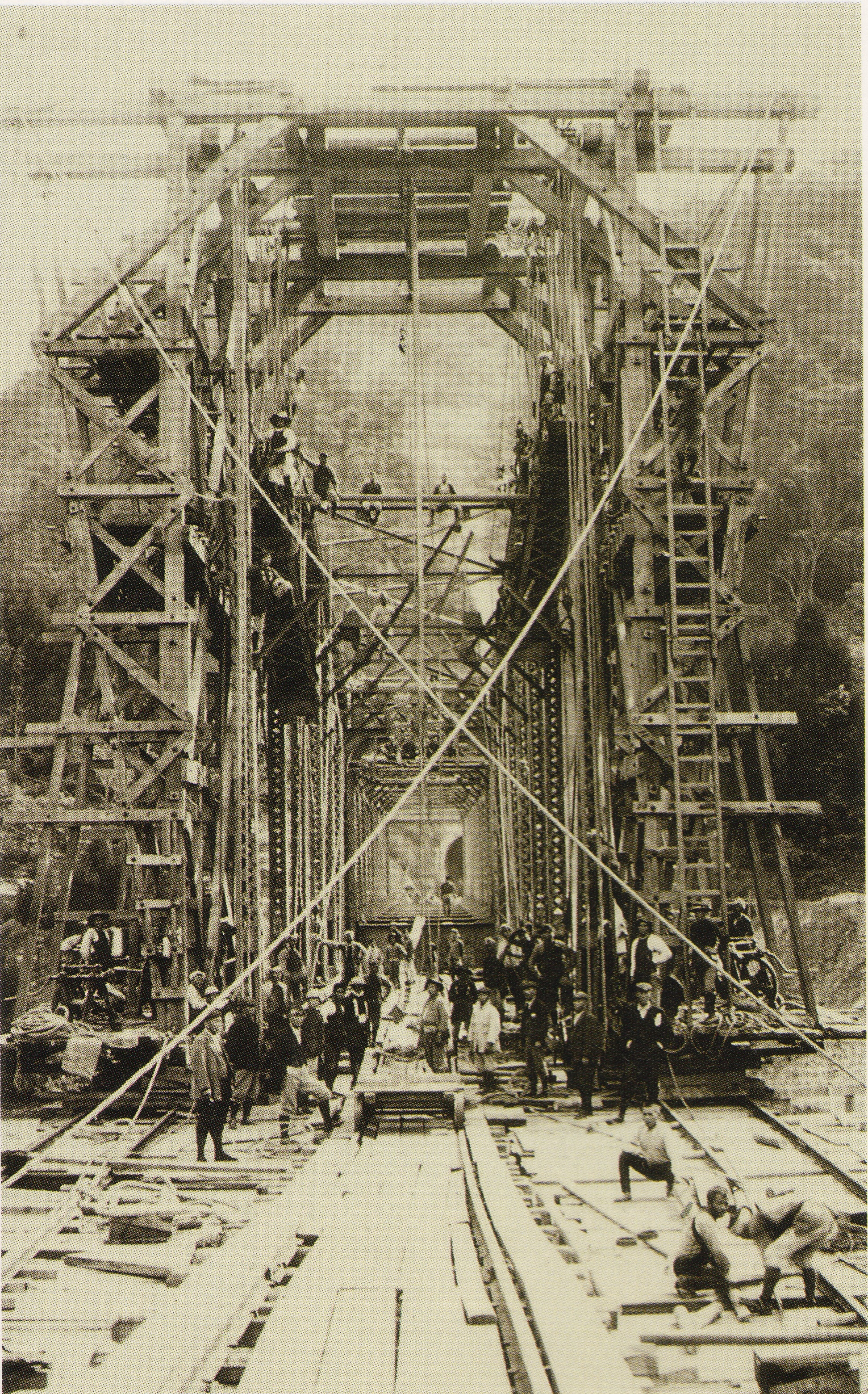 Construction work of Kumagawa Railway Bridge No.1, which belonged to Japanese Governmental Railway Hitoyoshi Main Line (now JR Kyushu Hisatsu Line).